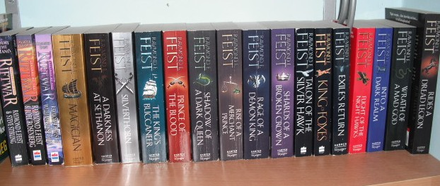 Image of most of the books of the Riftwar Cycle